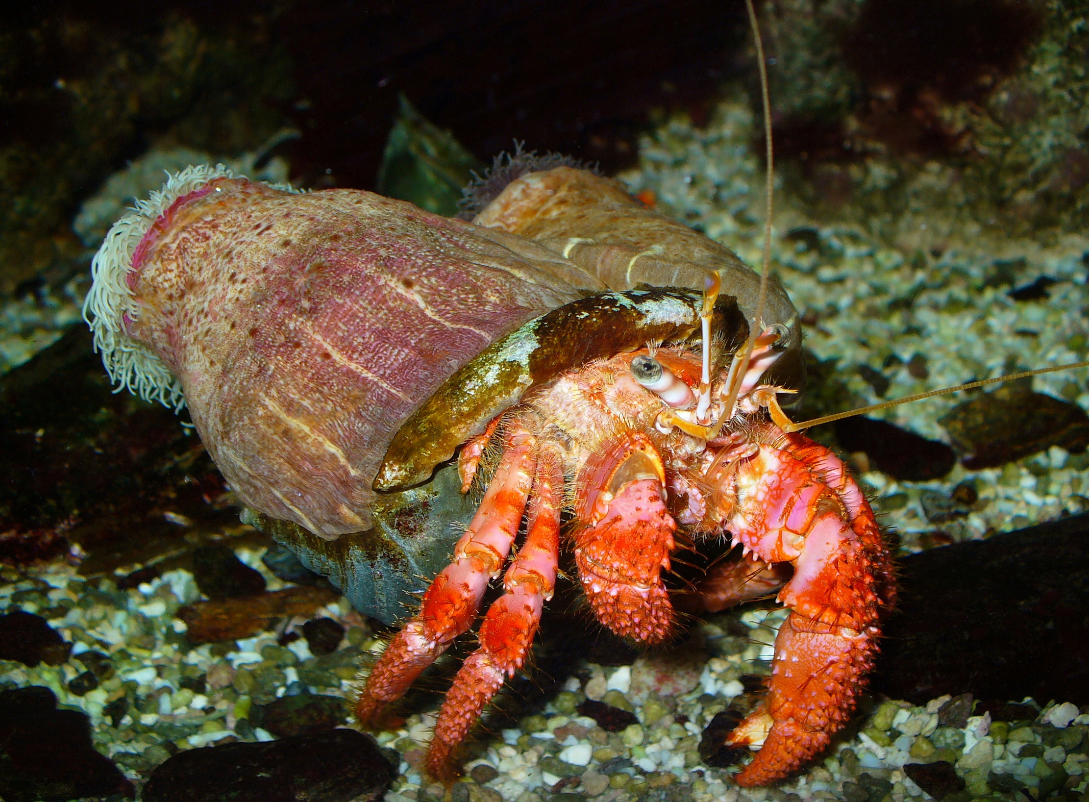 Dardanus calidus, Diogenidae, Large Red Hermit Crab with Calliactis parasitica, Hormathiidae, Hermit Anemone; Staatliches Museum für Naturkunde Karlsruhe, Germany. The Hermit Anemone is used in homeopathy as remedy: Calliactis parasitica (Callia-p.).